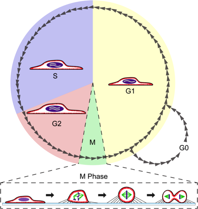 the schematic illustrates how cell shape changes through mitosis for a typical animal cells cultured on a flat surface